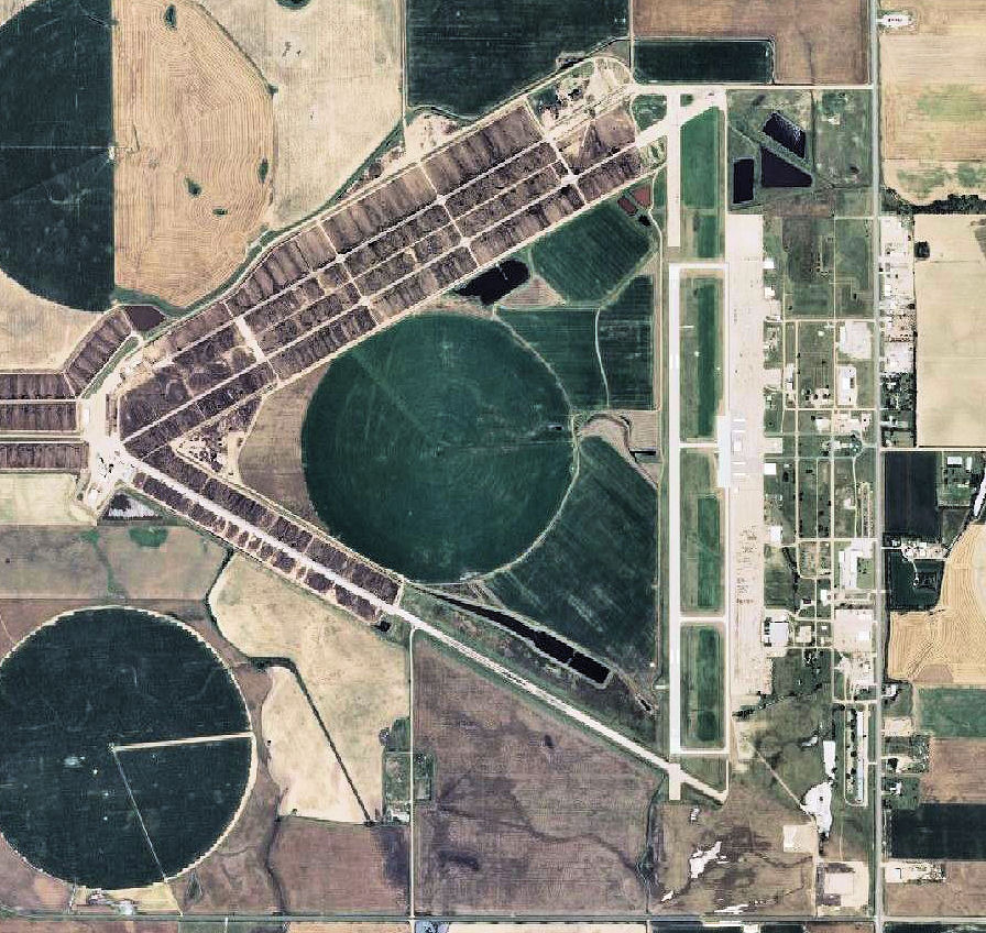 USGS digital orthophoto of Pratt Regional Airport in Kansas